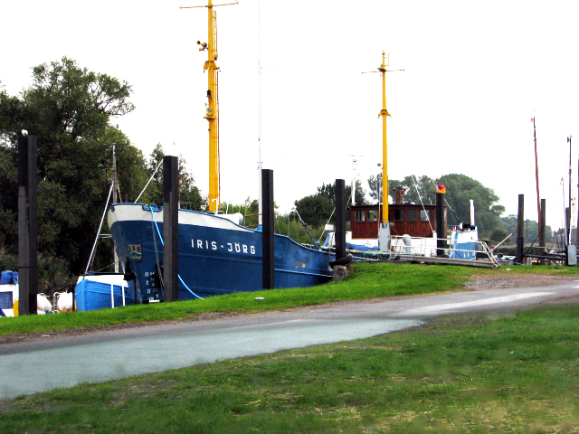 Inoperative coaster Iris-Jörg in the harbour of Wischhafen, Lower Saxony